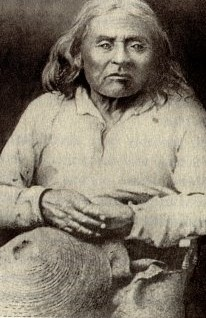 From the materials for the Alaska-Yukon-Pacific Exposition of 1909, held in Seattle. Photo of Chief Seattle & copy about the Battle of Seattle (1856) and about Chief Seattle.